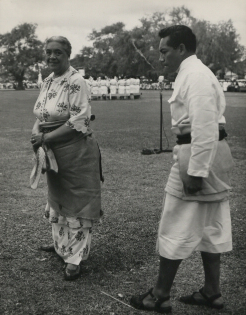 Description: Queen Salote with her Aide, Moblesen Galu, arriving at the park adjoining fo the feast and dancing. The band in the background plays the Tongan National Anthem. Location: Tonga Our Catalogue Reference: Part of CO 1069/669. This image is part of the Colonial Office photographic collection held at The National Archives. Feel free to share it within the spirit of the Commons. Please use the comments section below the pictures to share any information you have about the people, places or events shown. We have attempted to provide place information for the images automatically but our software may not have found the correct location. For high quality reproductions of any item from our collection please contact our image library